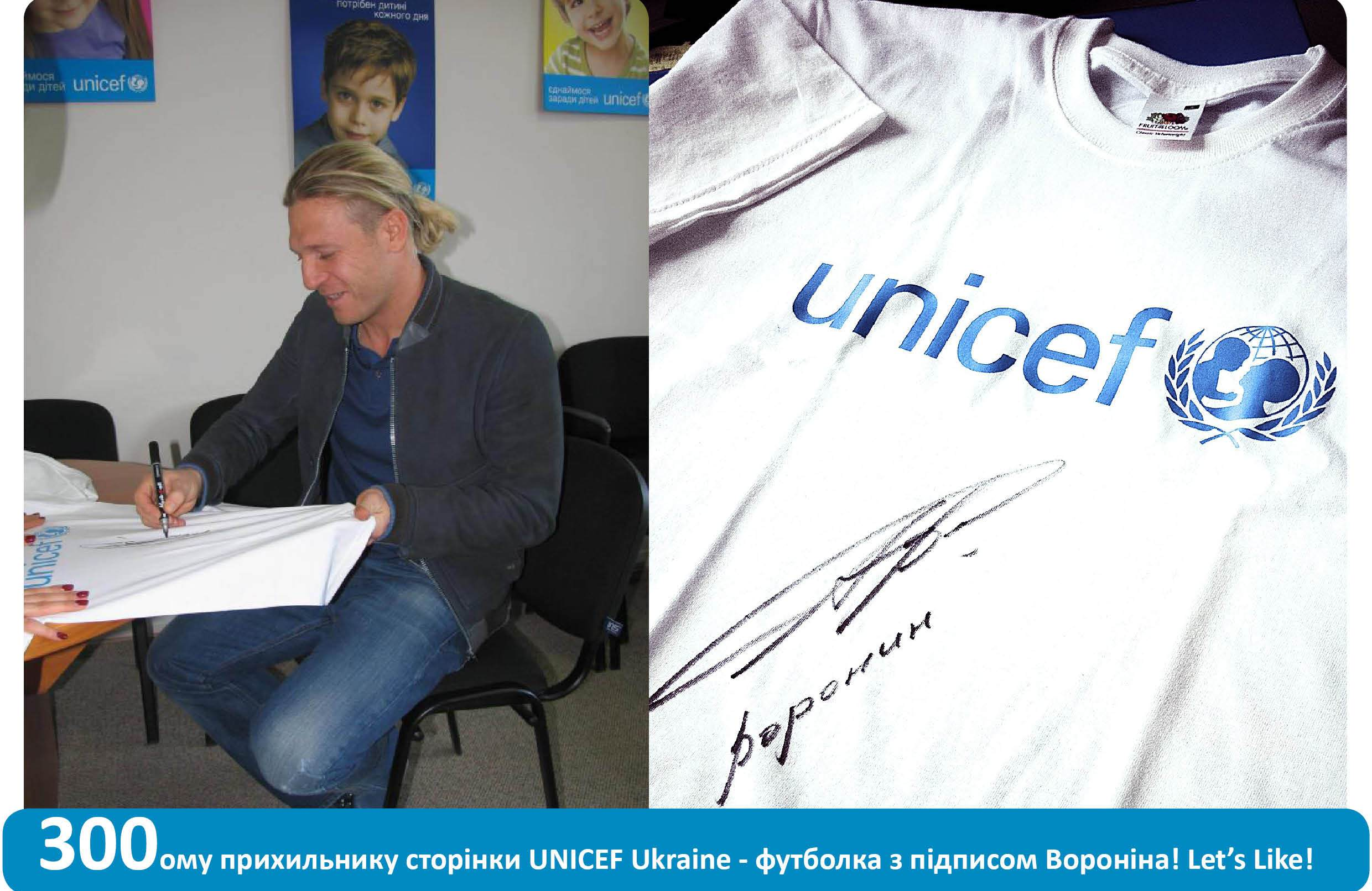 Let's Like for Children - UNICEF Ukraine official FB page